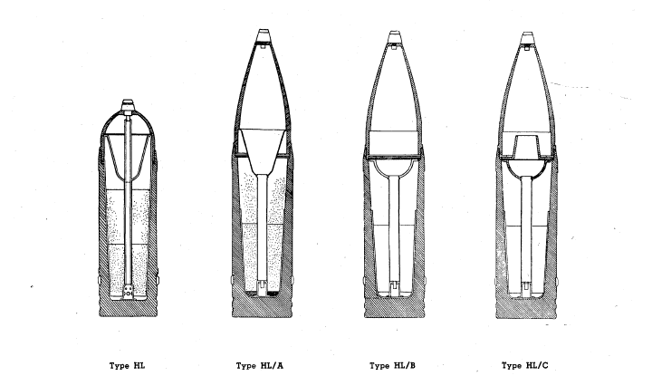 Artillery ammunition of the German Wehrmacht until 1945, here: Shell 1938, a particular type of hollow charge (de: Hohlladung) ammunition (short: Gr. 38HL, also Gran. 38HL): type HL – Basic type with hollow charge – Type HL/A with hollow charge – Type HL/B with hollow charge – Type HL/C